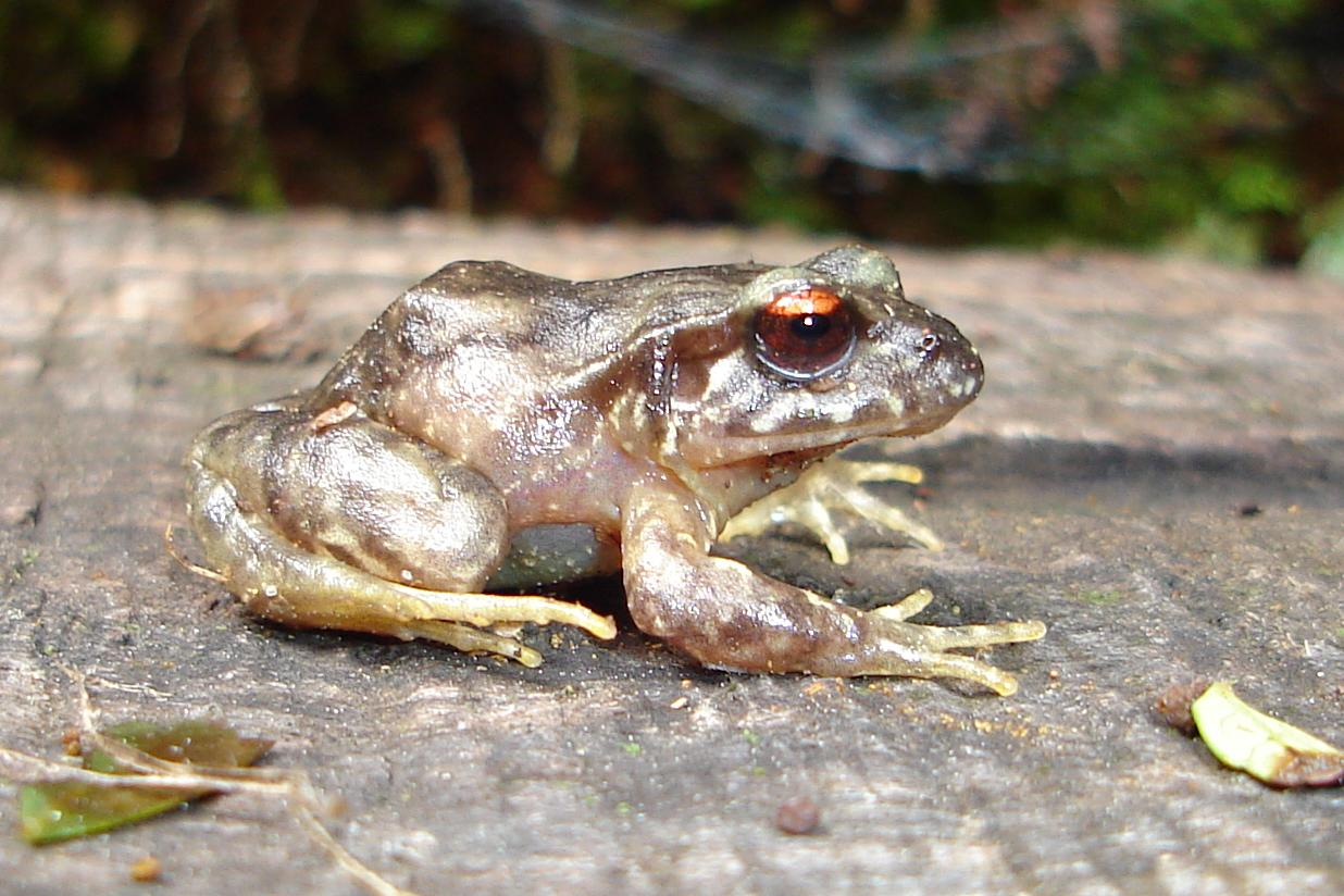 Eupsophus roseus